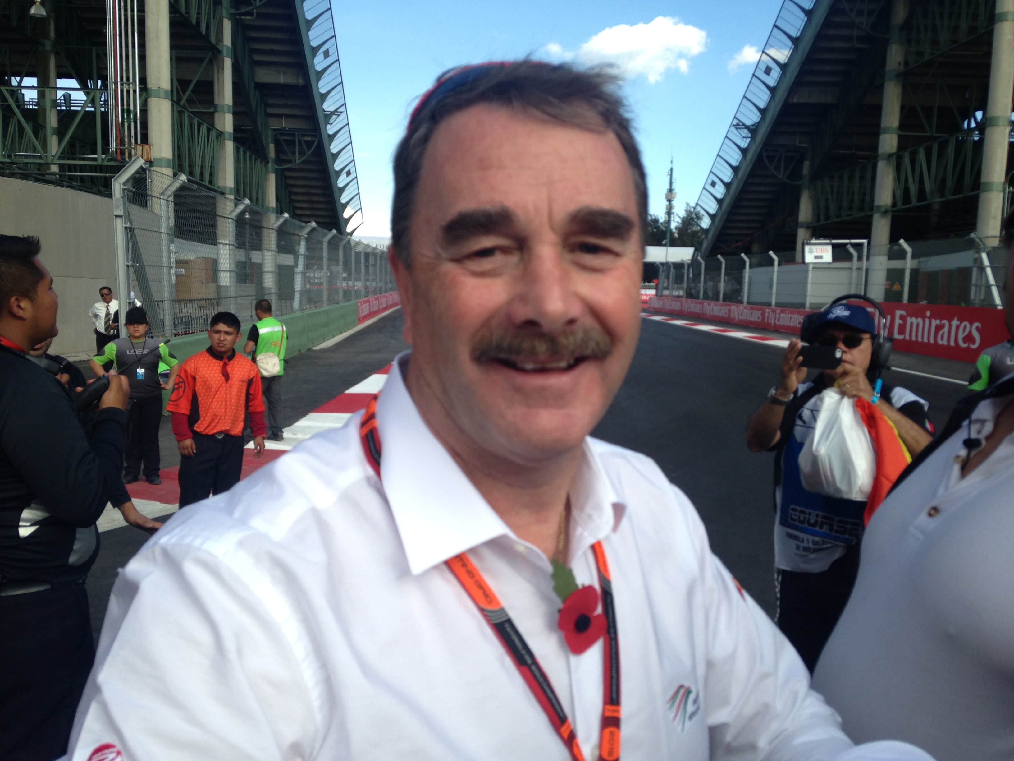 British F1 champion on the curve that bears his name, the 17 in the Autódromo Hermanos Rodríguez. PitWalk Mexican Grand Prix 2015, Autódromo Hermanos Rodríguez. Mexico City, Mexico.